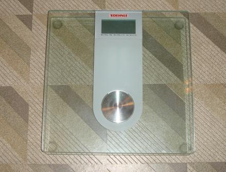 Soehnle bathroom scales photographed by me in January 2007.